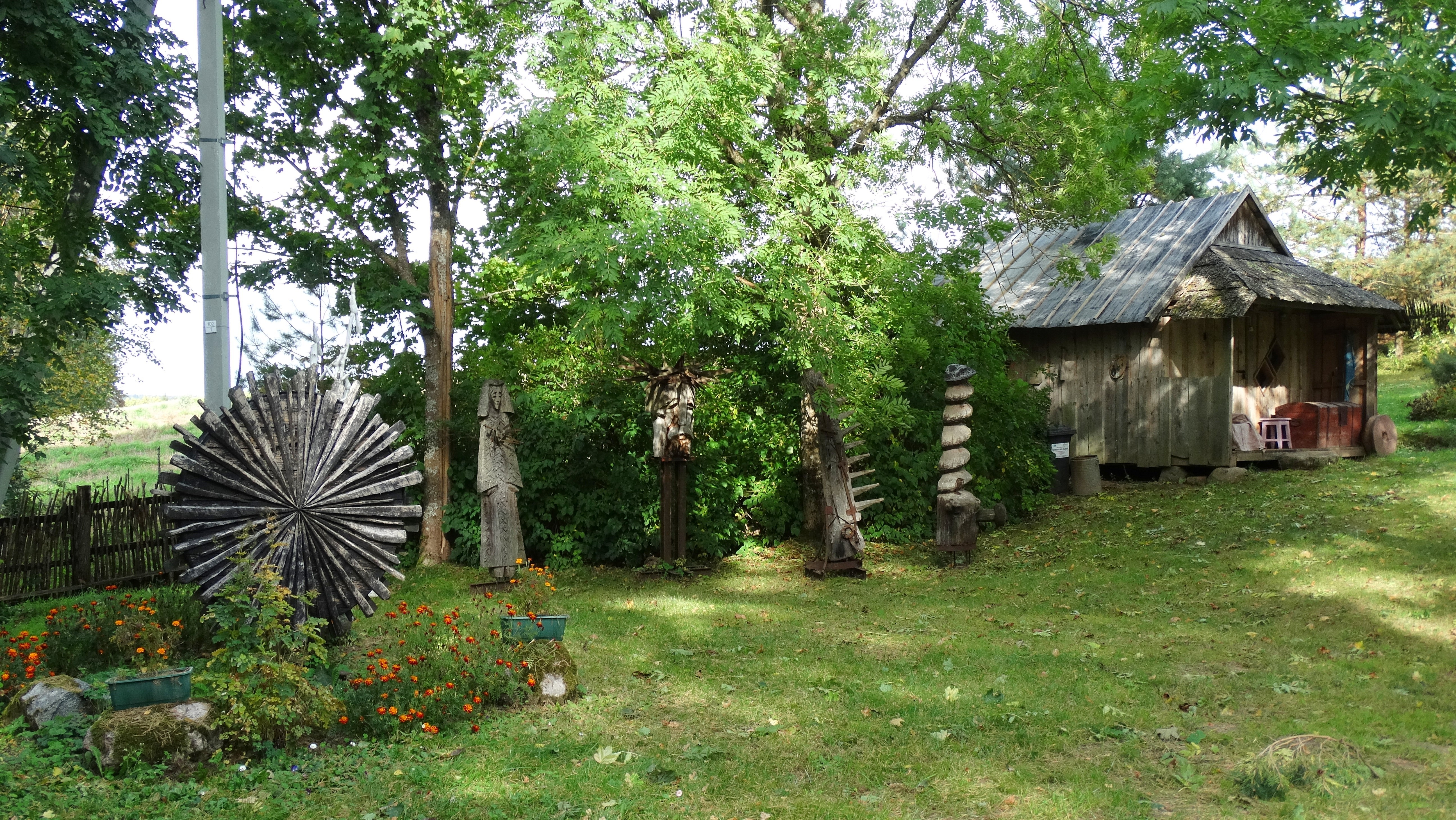 Davatkynas, Naujasodis, Prienai district, Lithuania